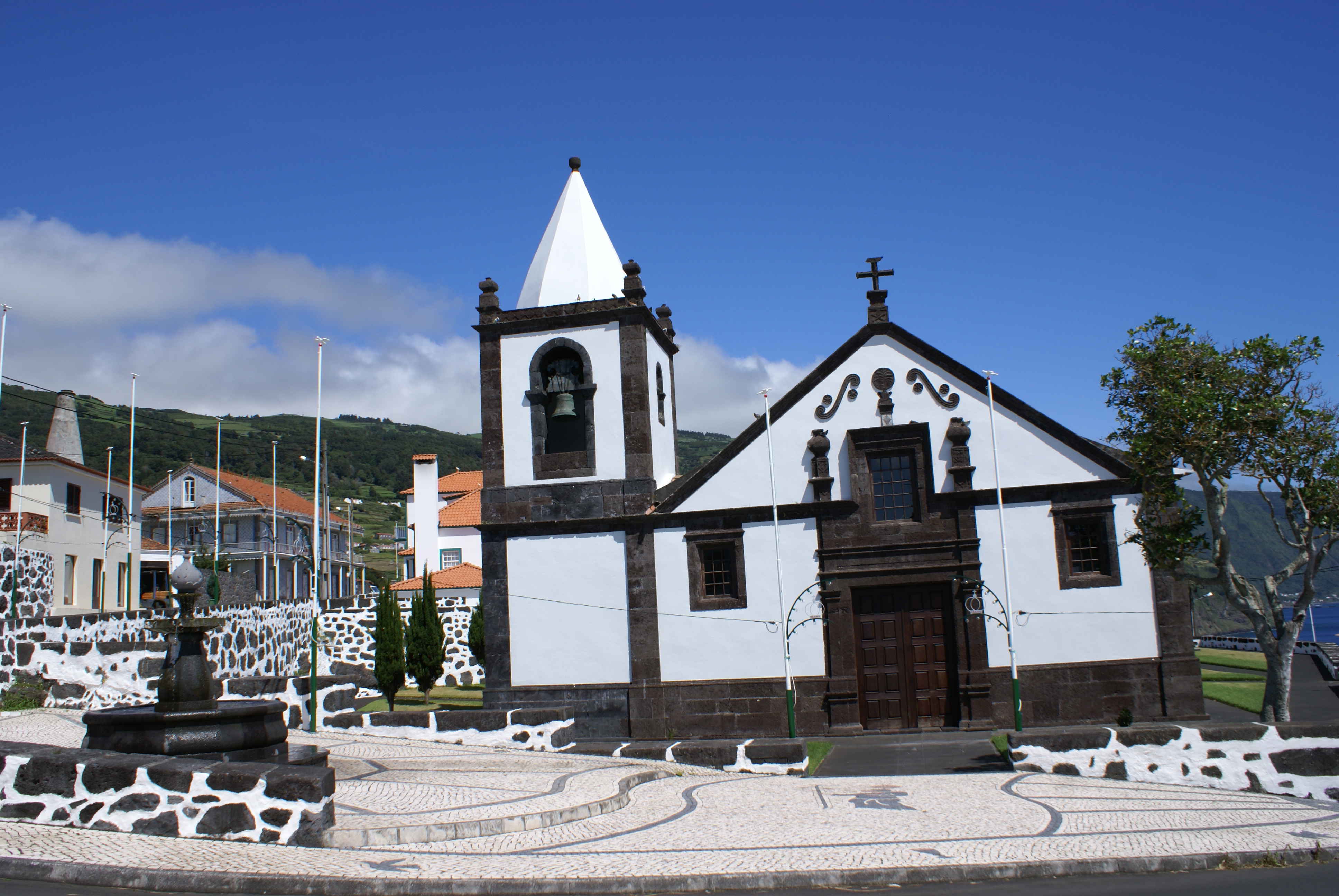 Front façade of the Church of São Tiago Maior, Ribeira Seca, Calheta, São Jorge (Azores), Portugal